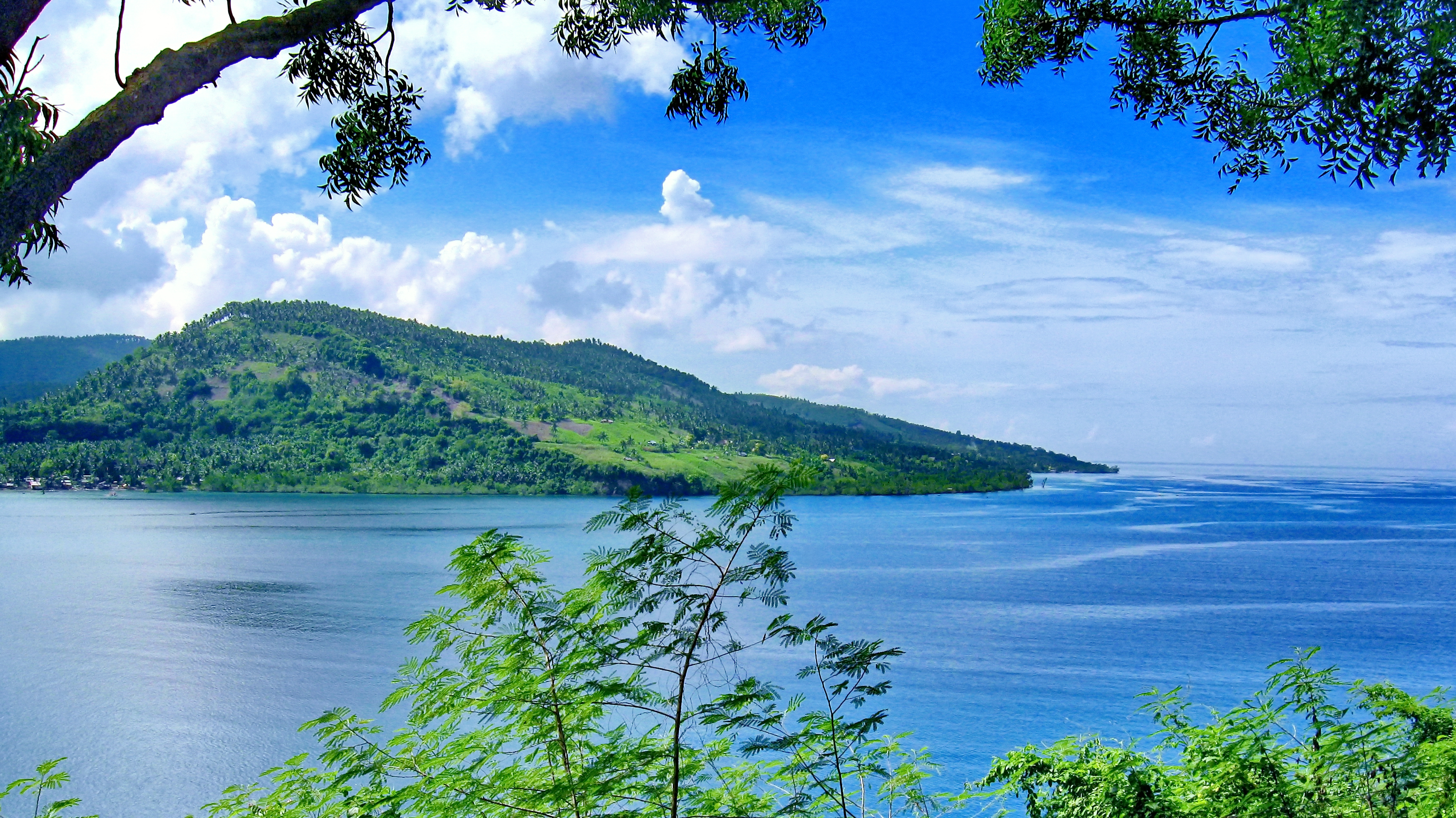 view of Sarangani Bay, Sarangani Province, Philippines Sarangani Bay is one of the protected seascapes in the Philippines photo taken somewhere along the road en route to Glan, Sarangani Province, Philippines